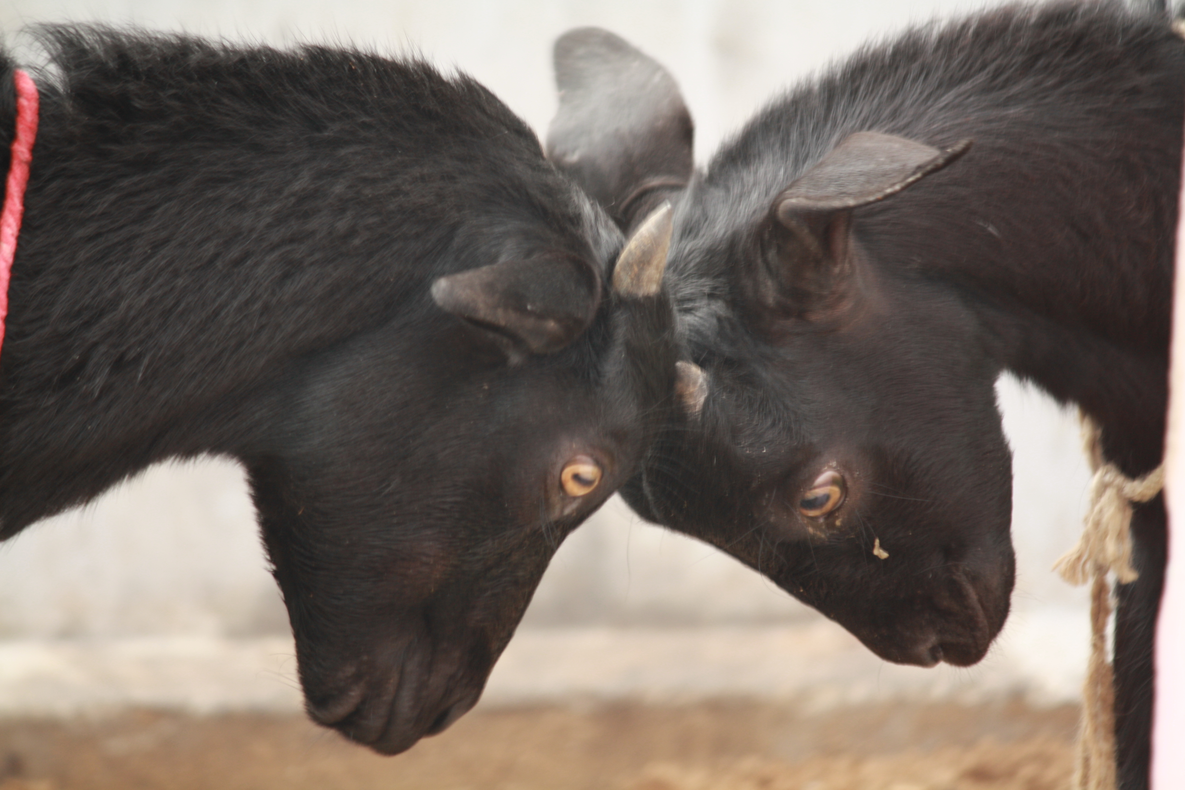 Goats butting heads.